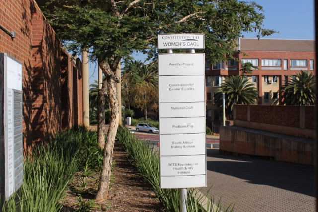 Detail of the Women's Gaol, Constitution Hill, Johannesburg